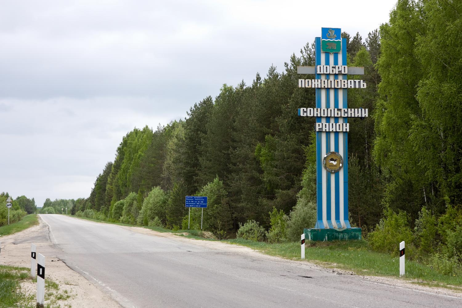 "Welcome. Sokolsky District". Monument on border of Sokolsky District, Nizhny Novgorod Oblast.